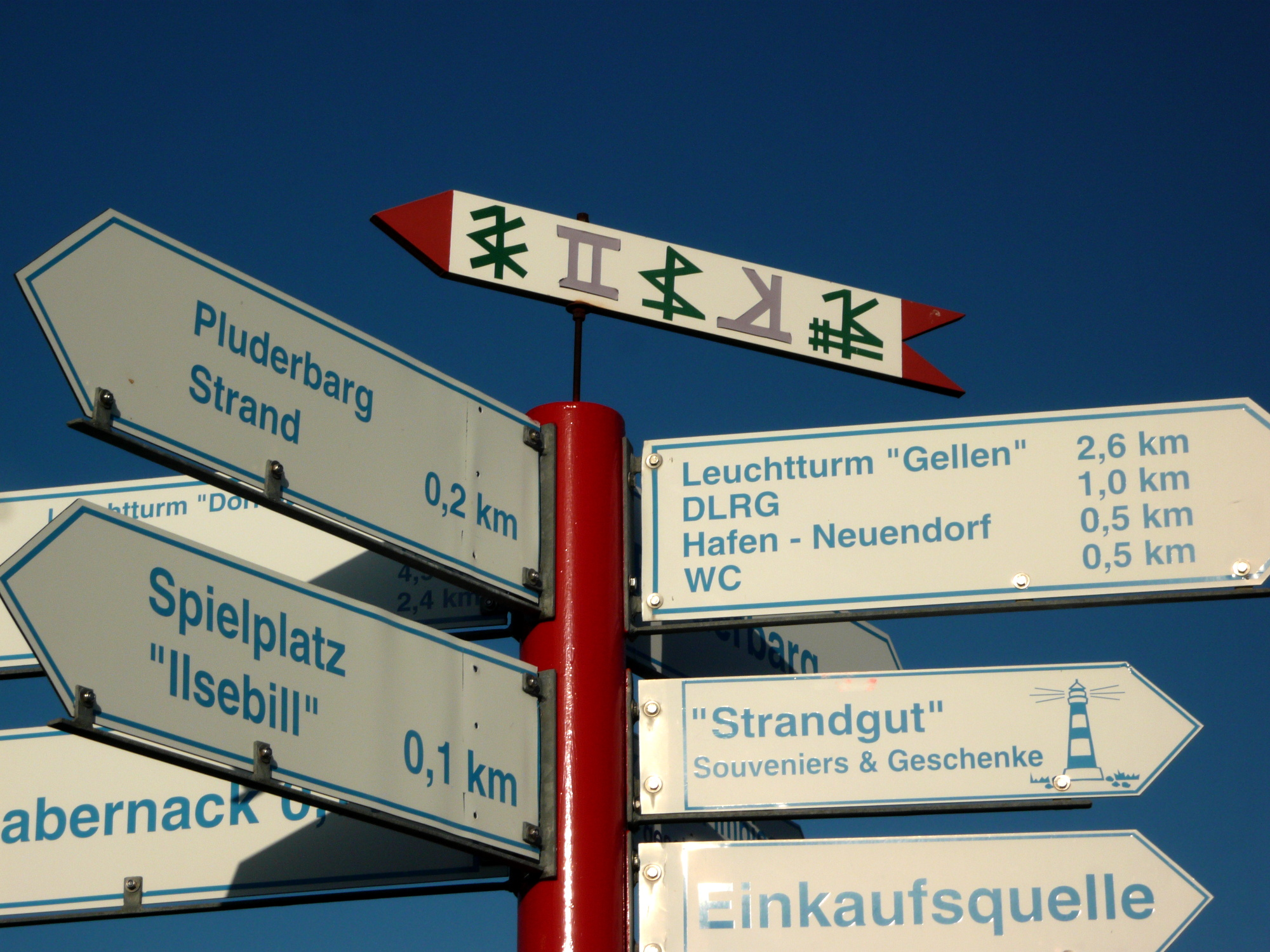 Houses on Hiddensee island are identified by traditional runic-like signs